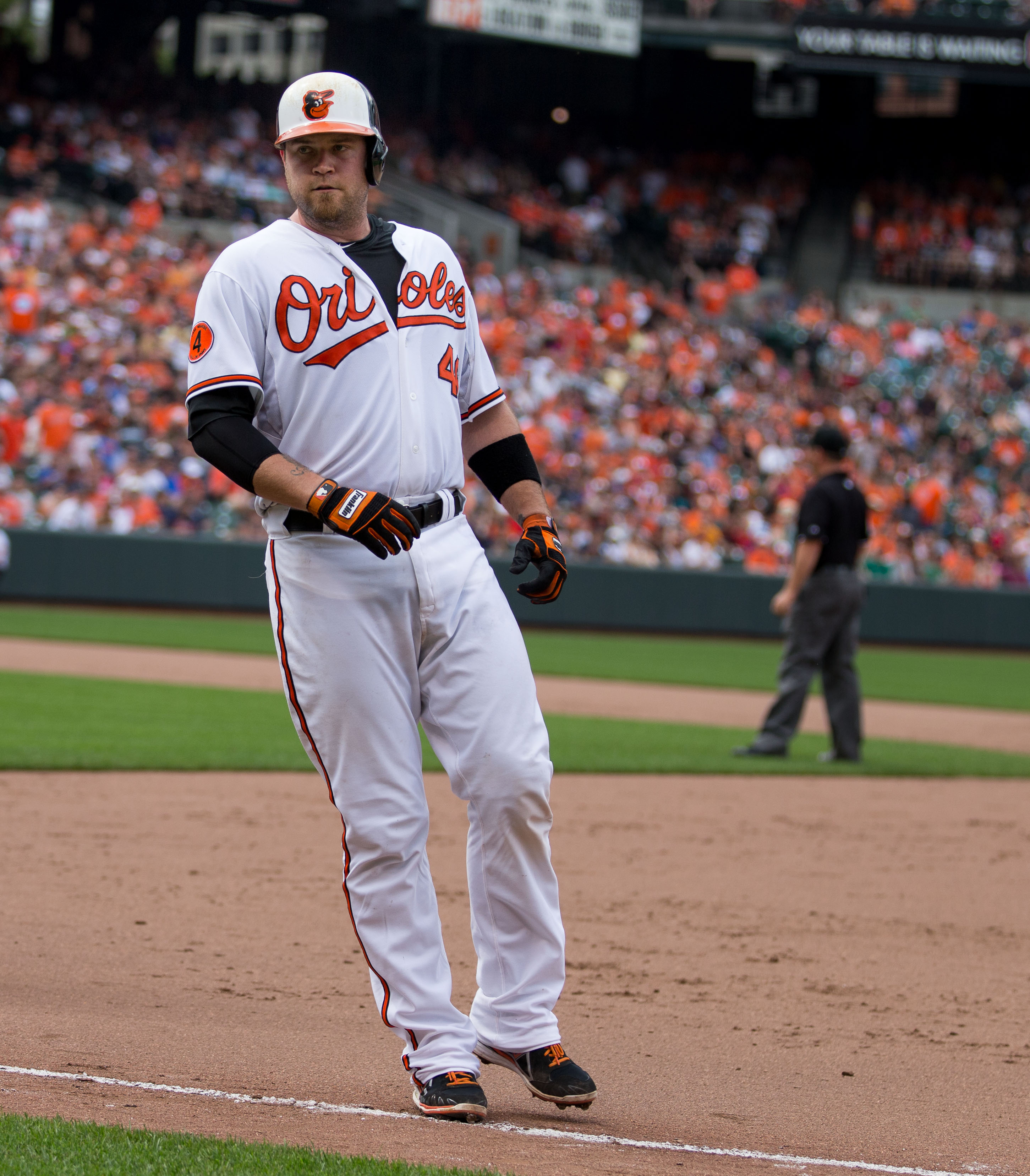 Chris Snyder in 2013